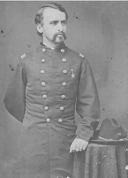 Edward B. Knox: Age, 23 years. Enrolled August 8th, 1861 at Albany. Mustered into Company I as a first lieutenant September 23rd, 1861 for a three-year tour of duty. Made an adjutant September 25th, 1861. Wounded in action May 27th, 1862 at Hanover Court House, Va. Promoted to captain Company D July 4th, 1862 and mustered in as a major July 14th, 1862. Wounded in action May 8th, 1862 at Laurel Hill Va. Mustered out with regiment October 11th, 1864. Prior service as first lieutenant with Company A 11th New York Infantry.